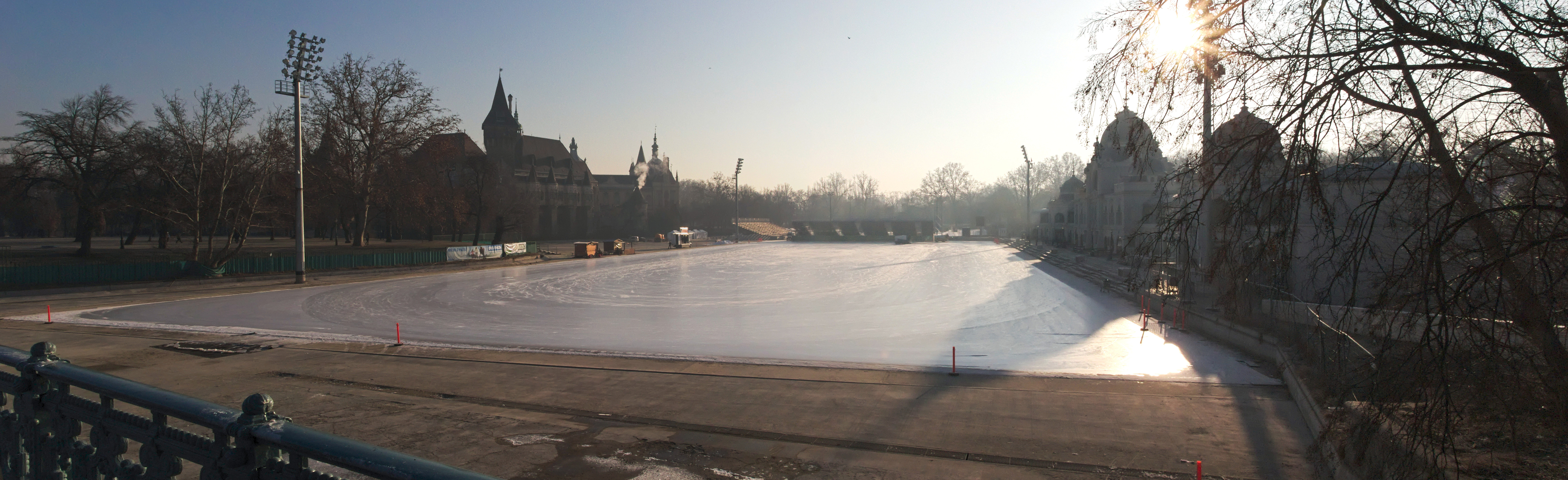 City Park Ice Rink in Budapest, Hungary.